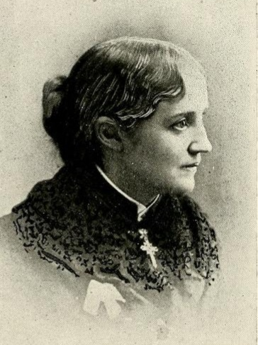 Photographic portrait of American physician, lecturer, author, and reformer Mary Wood Allen (1841-1908). From American Women: Fifteen Hundred Biographies with Over 1,400 Portraits, Frances E. Willard and Mary A. Livermore, editors. Mast, Crowell & Kirkpatrick, 1897 (revised edition from 1893), vol. 1, p. 20